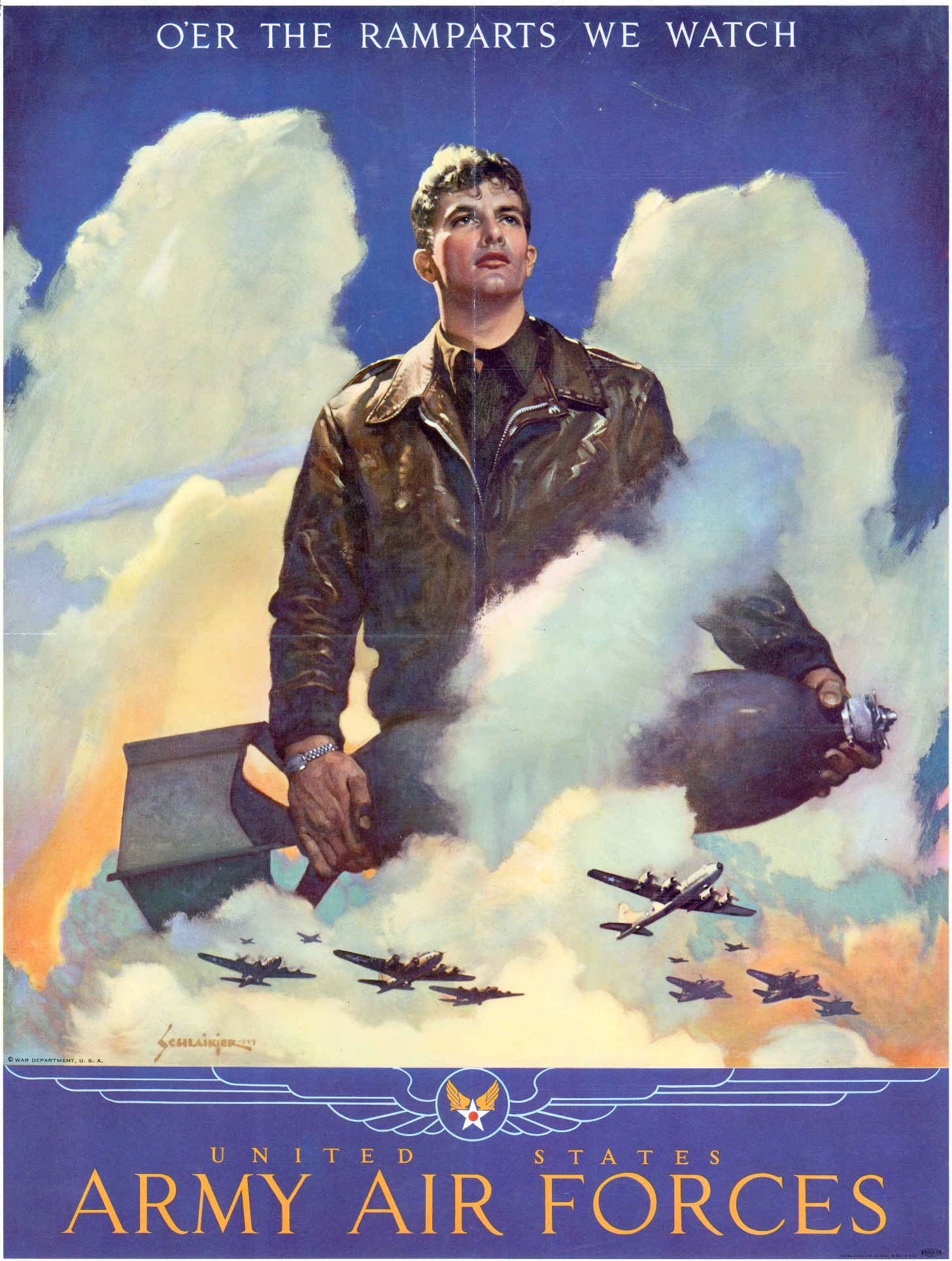 WW2 U.S. propaganda poster. Title: O'er the ramparts we watch : United States Army Air Forces. Size: Height: 63 cm (24.8 in); Width: 48 cm (18.8 in) dimensions QS:P2048,63U174728;P2049,48U174728. Signed and dated bottom left: Schlaikjer 1944. Listed in 1945 Monthly Catalog, page 440.[1]